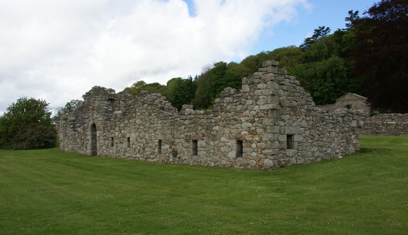 Deer Abbey, Old Deer, Aberdeenshire, Scotland. View from south east.